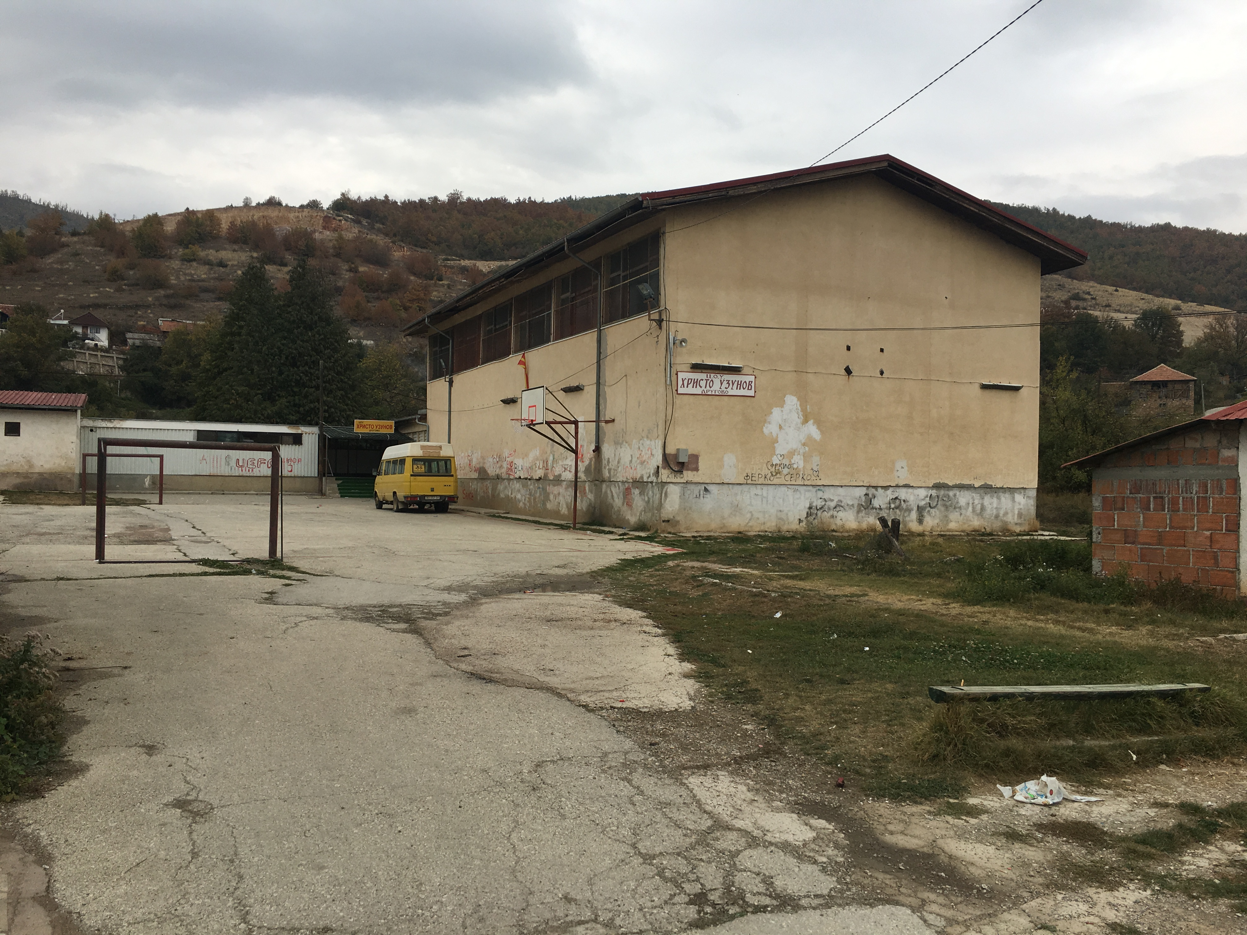 Wikiexpedition to Kopačka